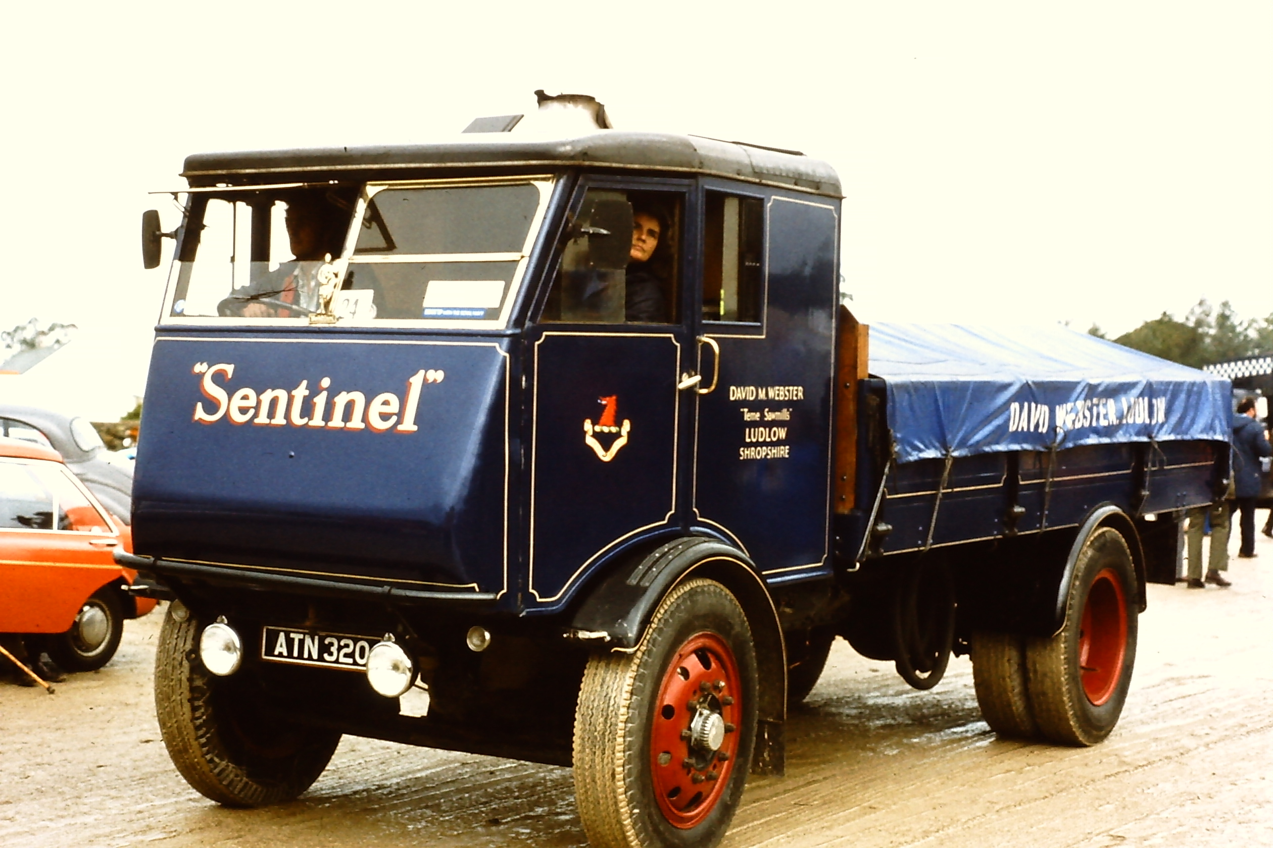 Sentinel S4 steam waggon Unknown UK steam rally, 1970s, probably Kendal.